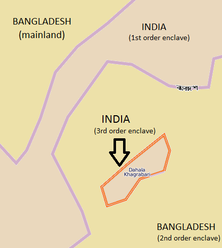 From OpenStreetMap Edited in Paint. Location